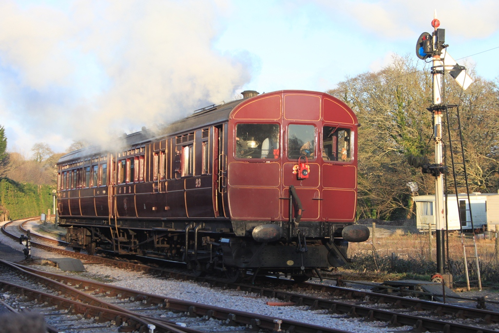 Great Western Railway Steam Railmotor 93 passing through Staverton while running from Totnes to Buckfastleigh.